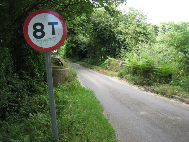 Weight limit on weak bridge between East End & Bentley Even rural road signs are not safe from graffiti! This sign warns drivers going north towards Bentley from East End, East Bergholt that they had better weigh no more than 8 tonnes. The road is narrow too! Downstream from this bridge are two footbridges (at least) over Dodnash Brook - one in this square and one in TM1135, to the east.